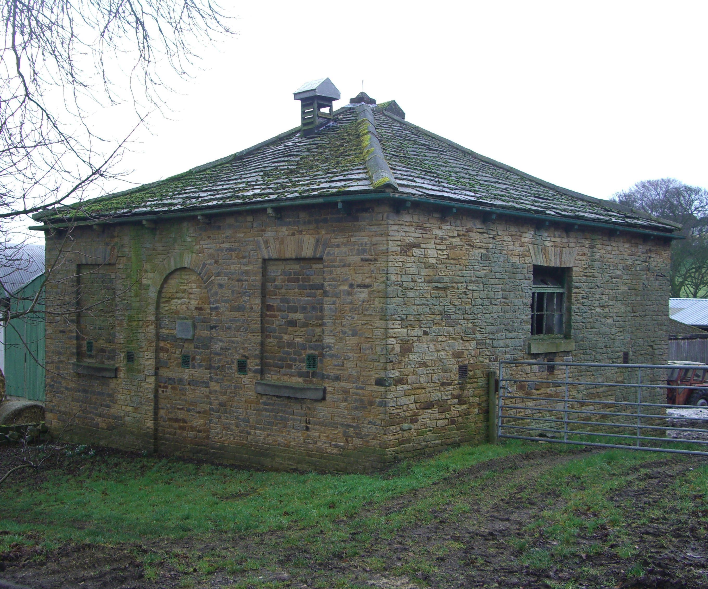 The former Methodist Chapel on Whiteley Wood Road in Sheffield, England. This Grade II Listed Building dates from 1789, The building bears an inscribed plate which says, "This chapel was buildt by Mary Mitchell and Sarah Hutton in 1789. In memory of their father Thomas Boulsover the inventor of Sheffield Plate 1705 - 1788".